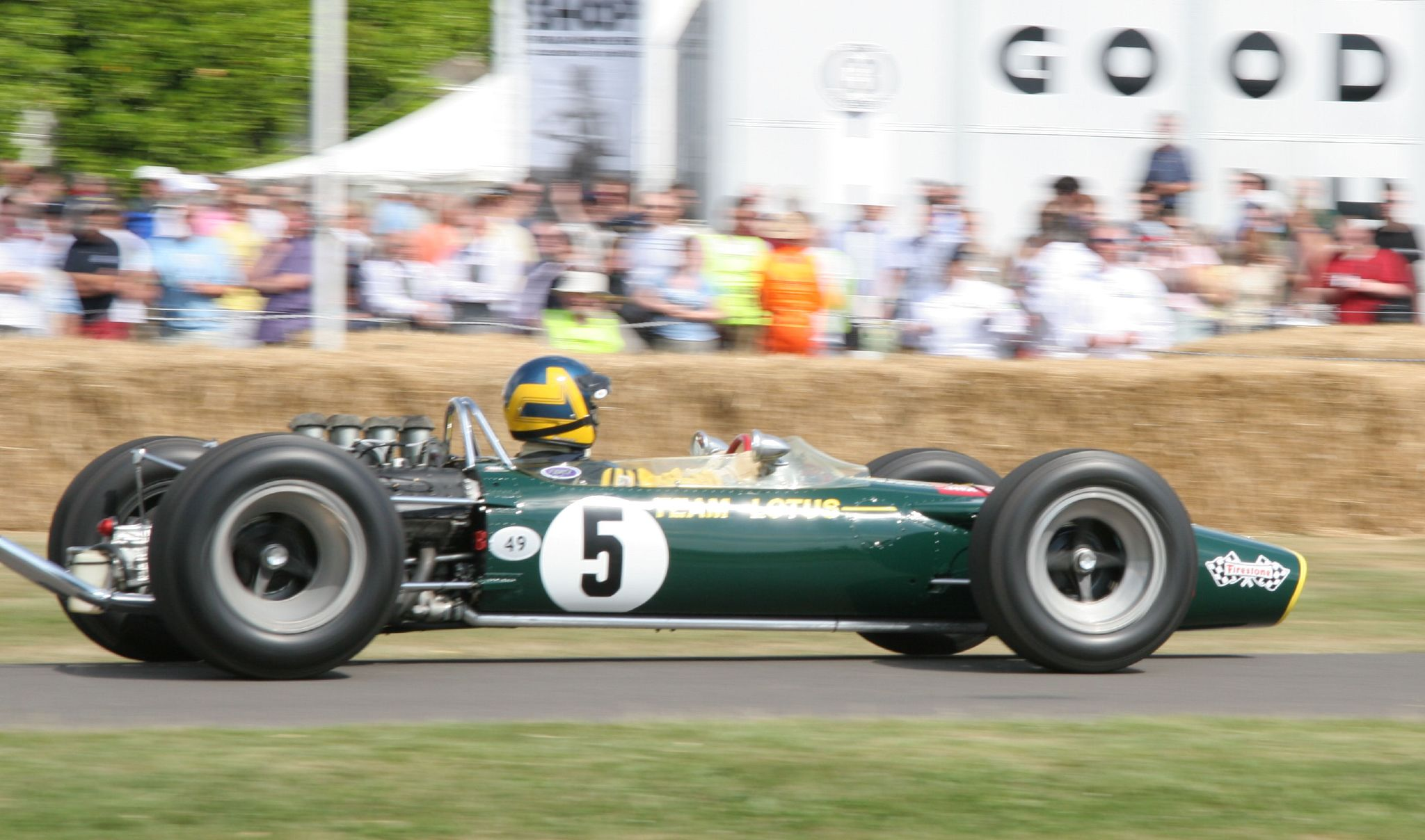 1967 Lotus Cosworth Formula One car at the 2006 Goodwood Festival of Speed